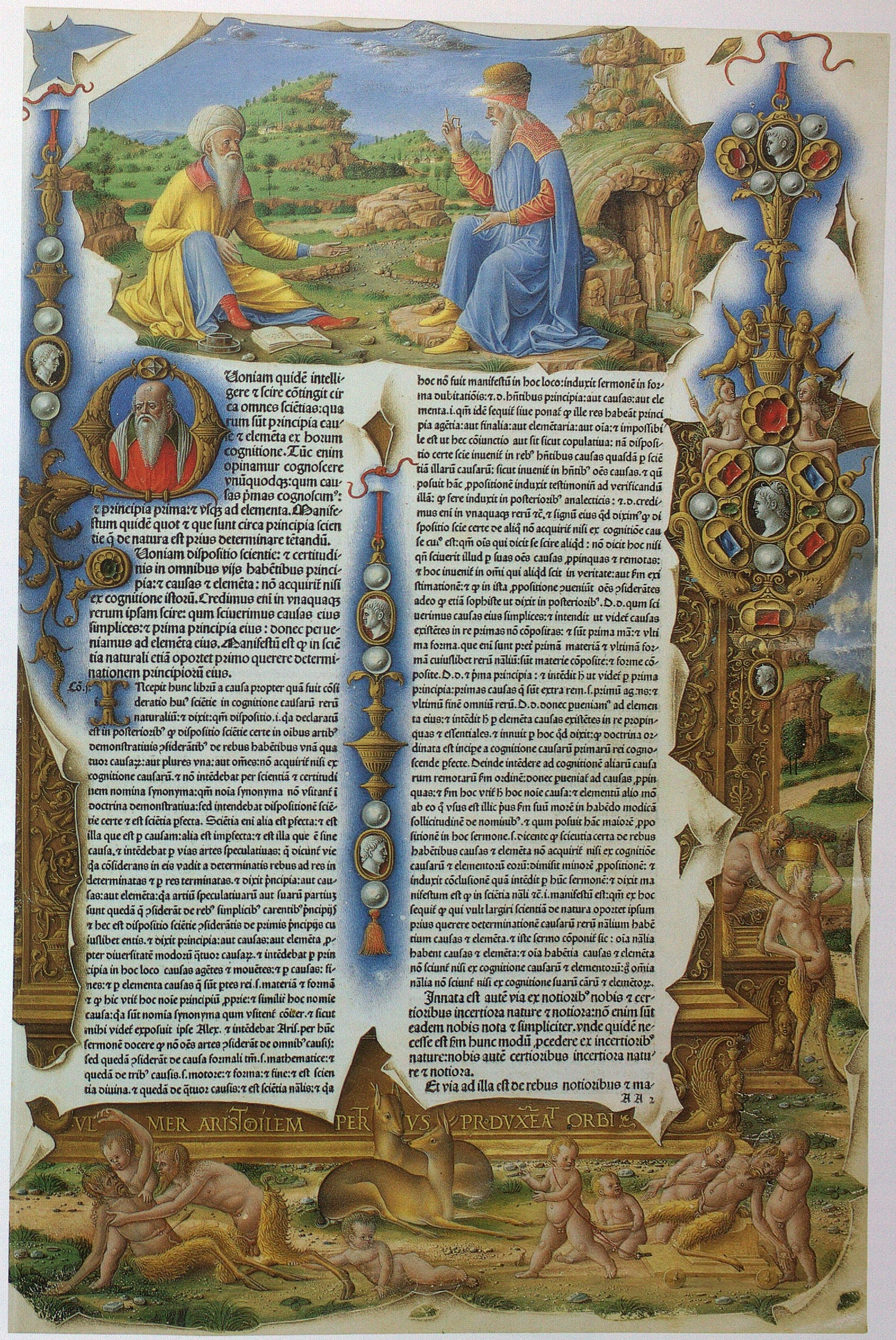 The beginning of the „Physics“ in an incunable printed at Venice decorated with hand-painted miniatures. New York, Pierpont Morgan Library, PML 21194-21195, vol. 1, fol. 2r.